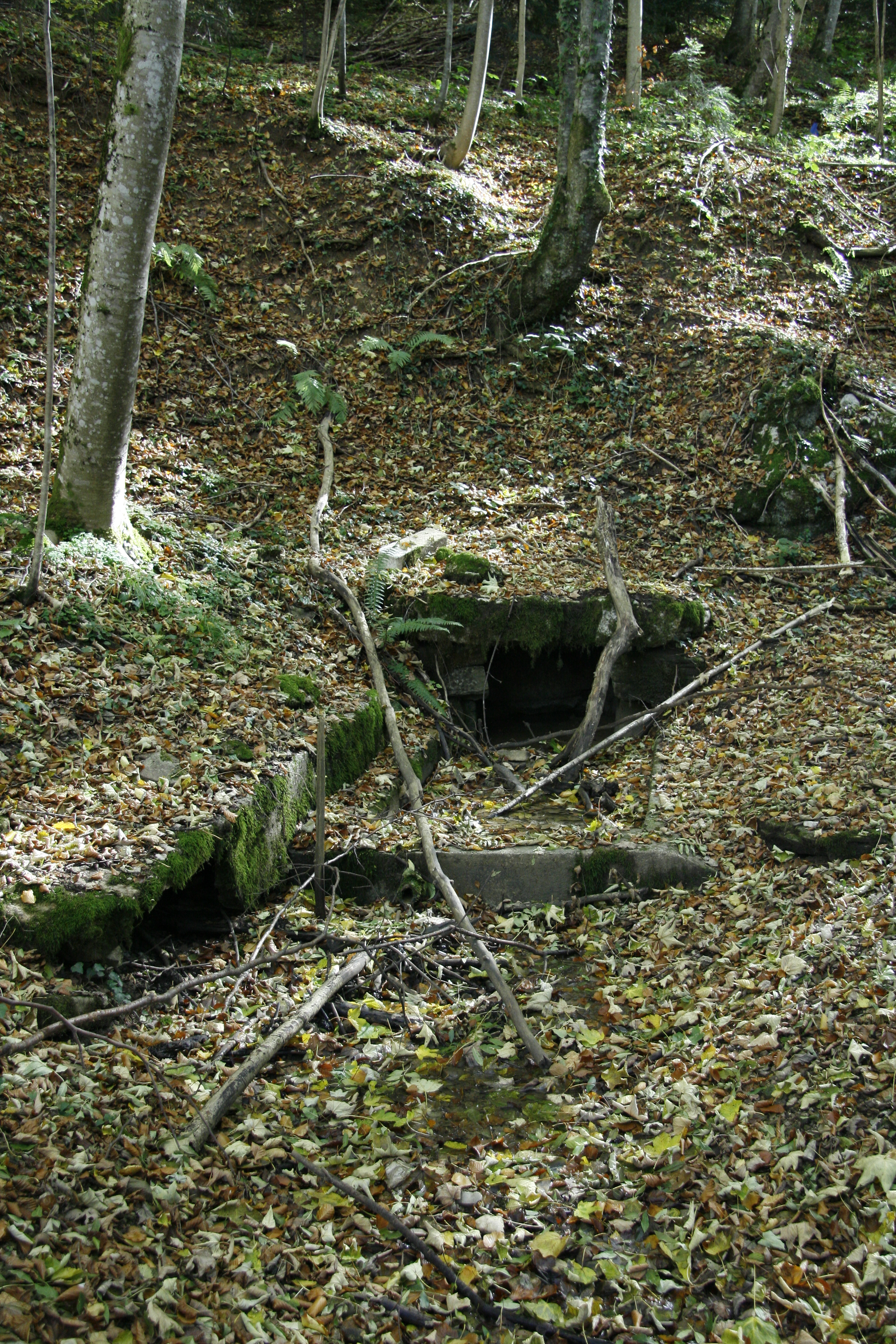 Fontaine du Pellay